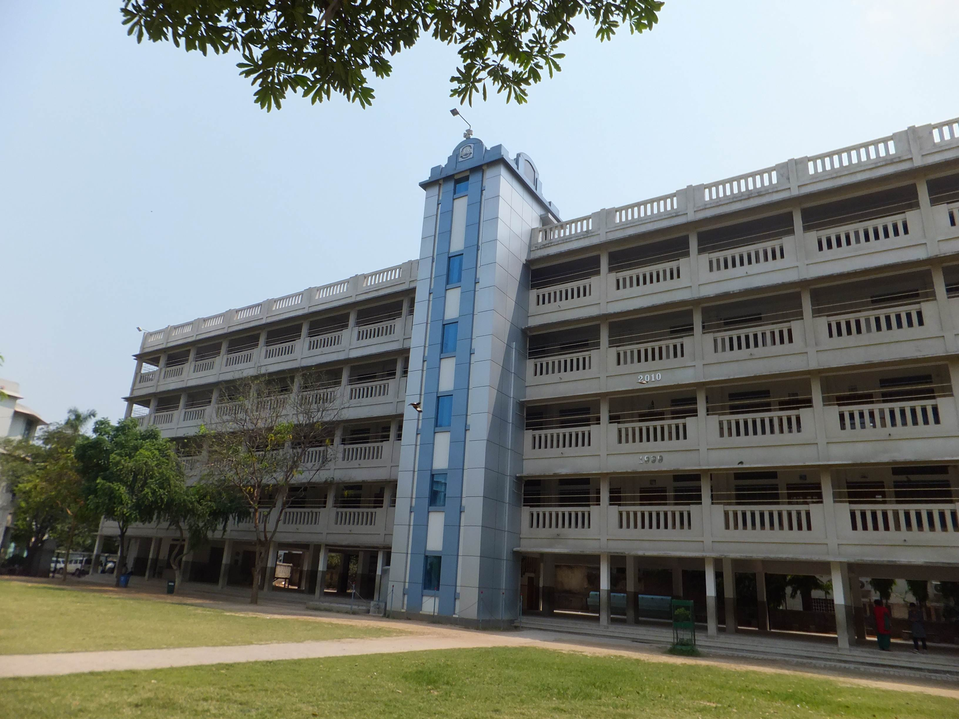 Primary Building of St. Xavier's High School, Patna